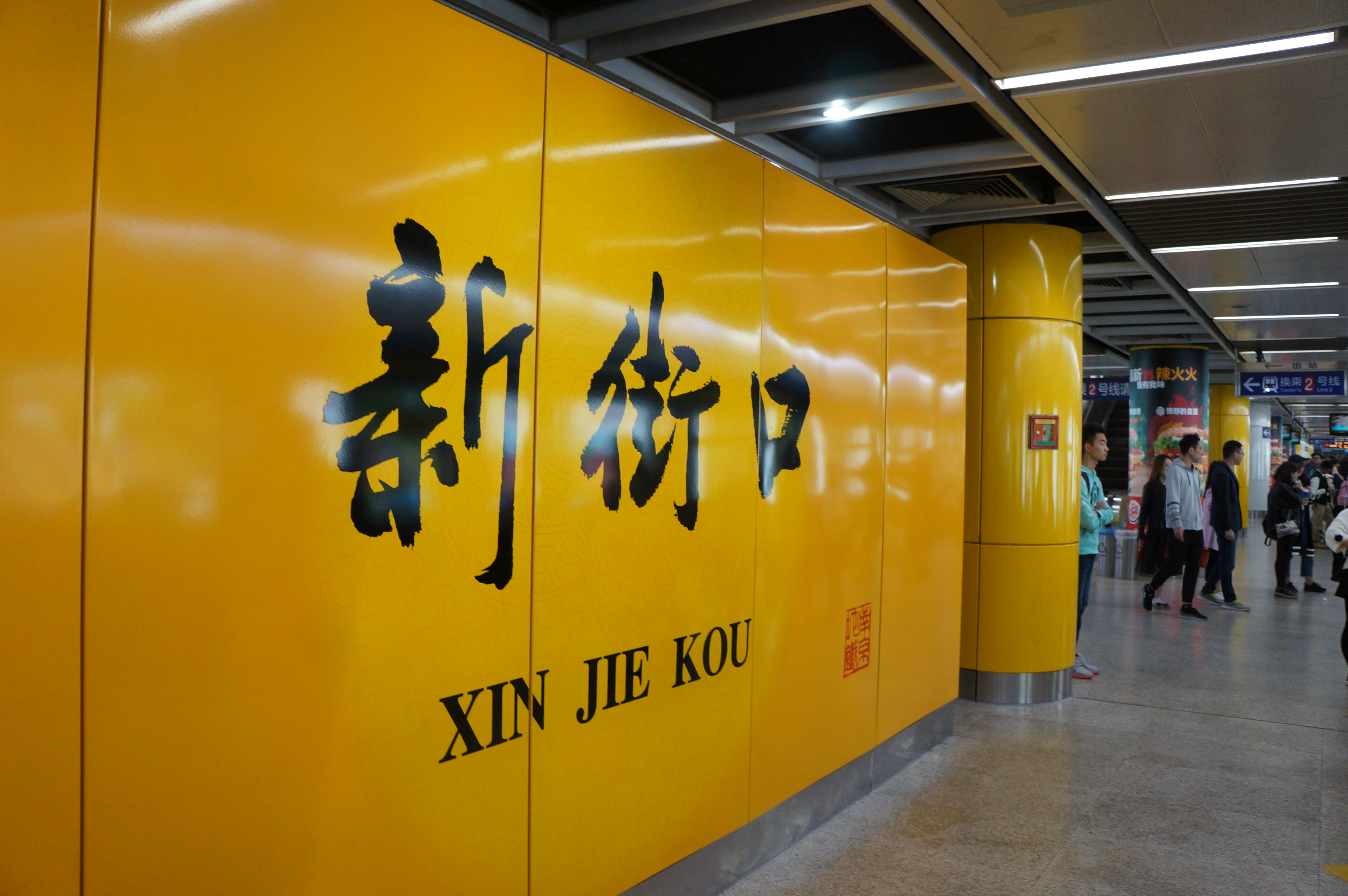 201704 Nameboard of L1 Xinjiekou Station